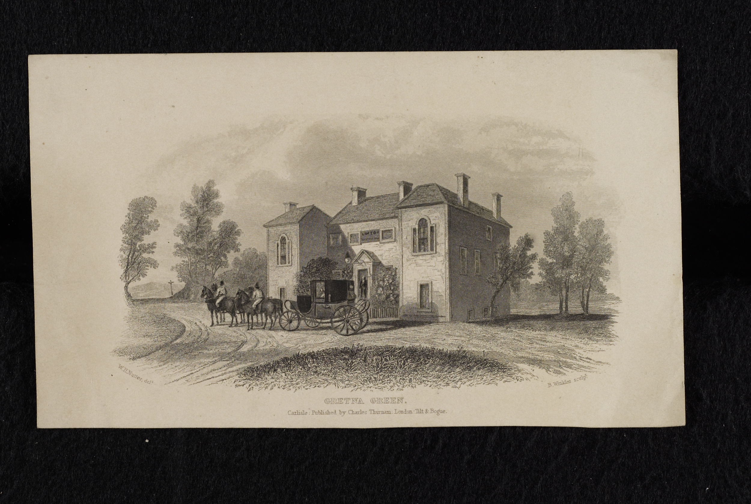 Gretna Green, Carlisle: Published by Charles Thurnam